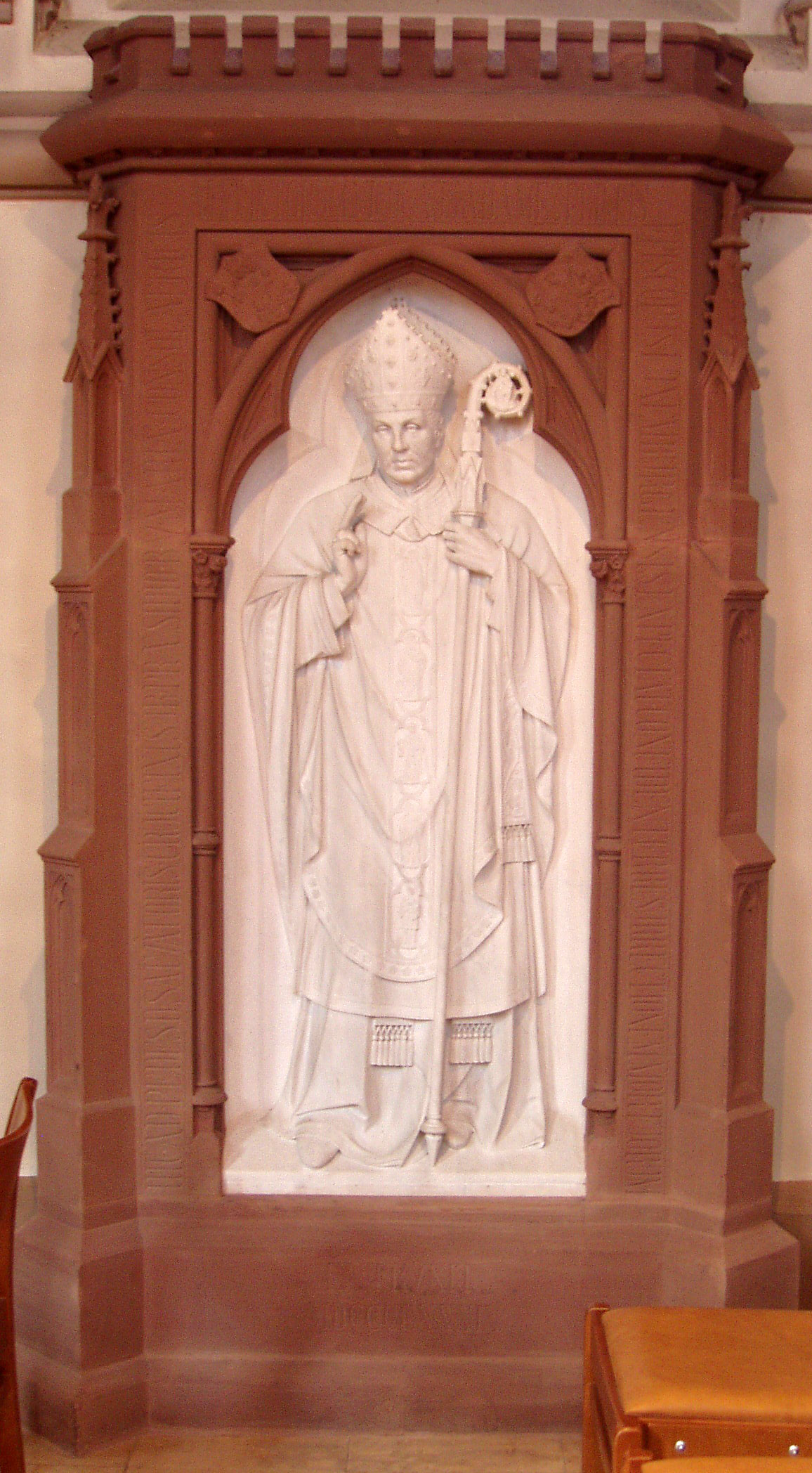 gravestone of the first bishop of Luxembourg, Nicolas Adames in the chapel of Glacis